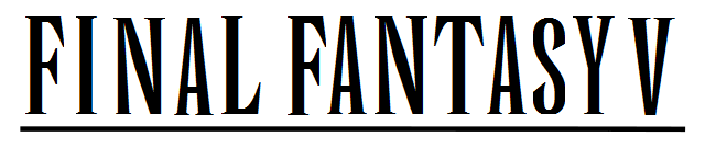 Final Fantasy wordmark created using Runic MT Condensed font. Trademarked by Square Enix.